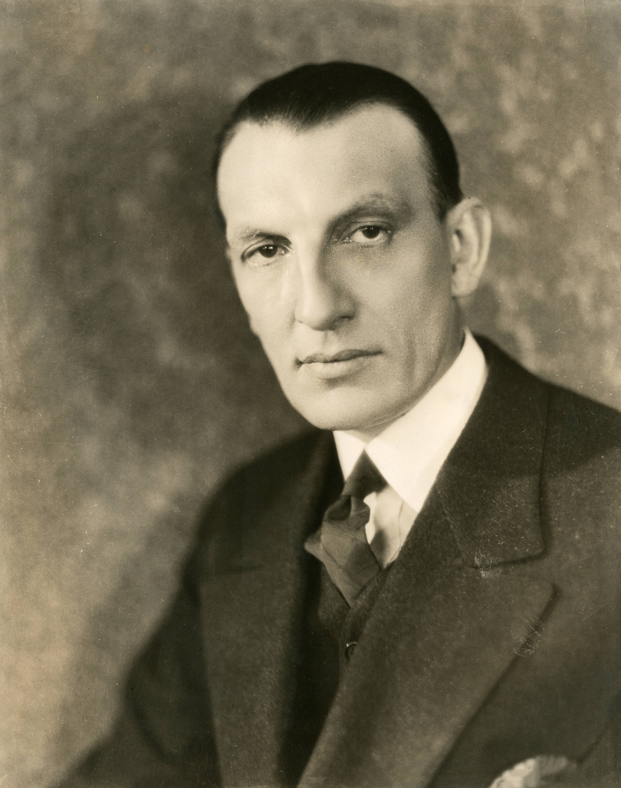 Film director Charles Brabin. Subjects: miscellaneous